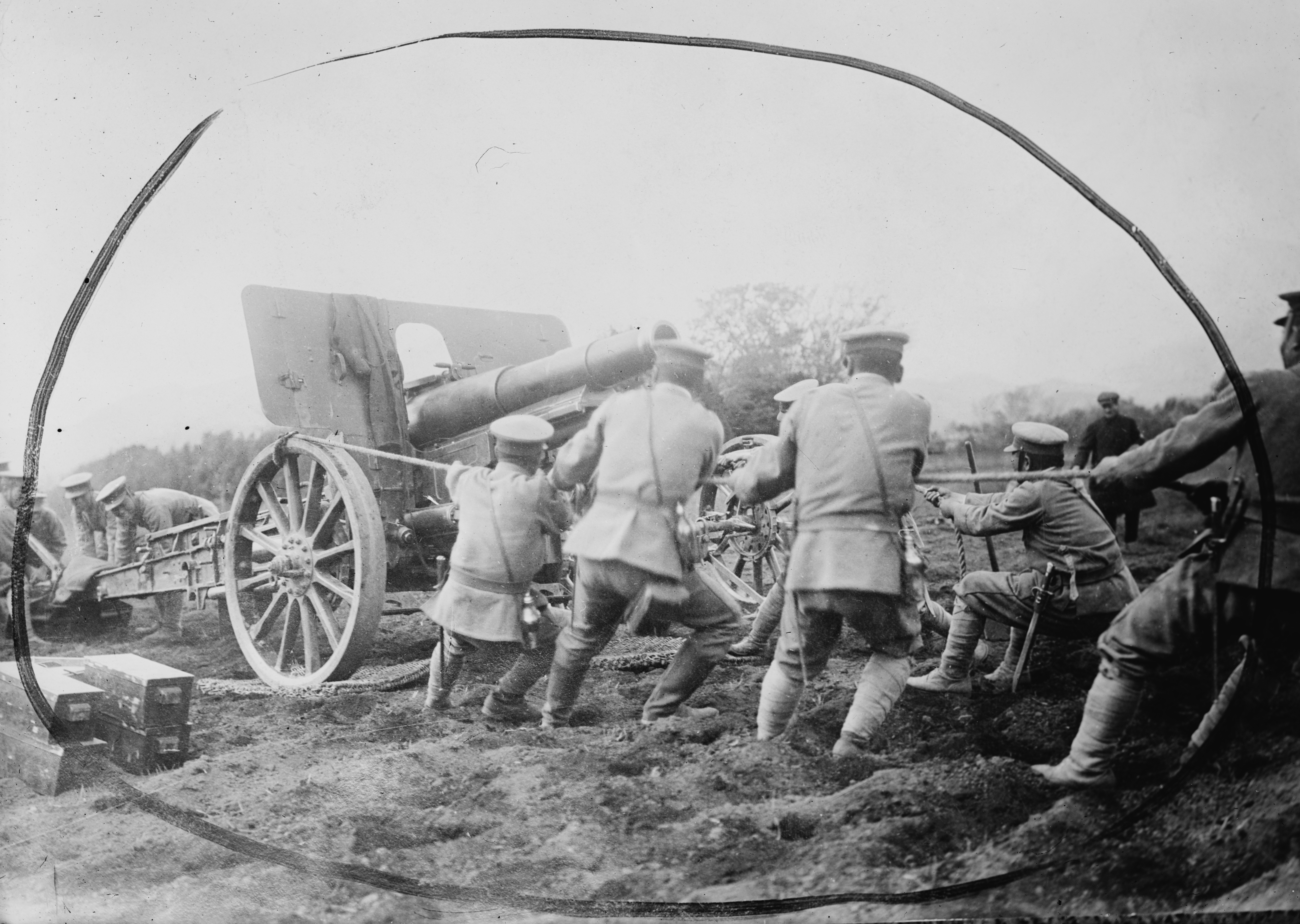 Original title: Jap[anese] artillery in manoeuvres. Gun is a Type 4 15 cm howitzer.